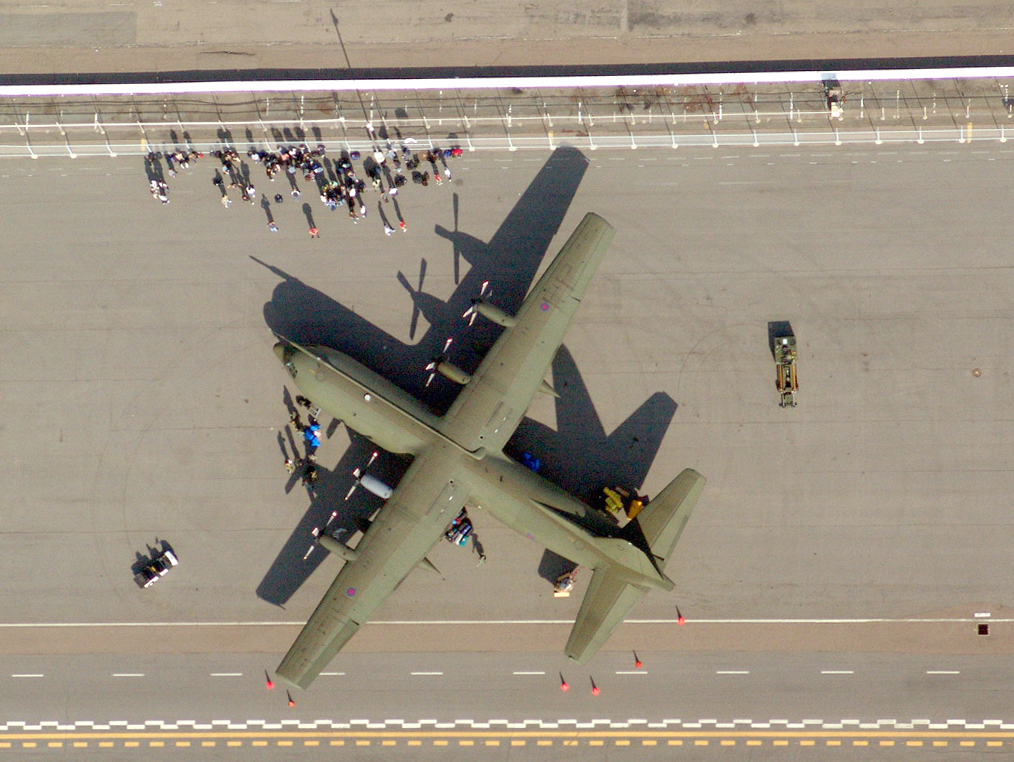 Hercules C130K on a tarmac